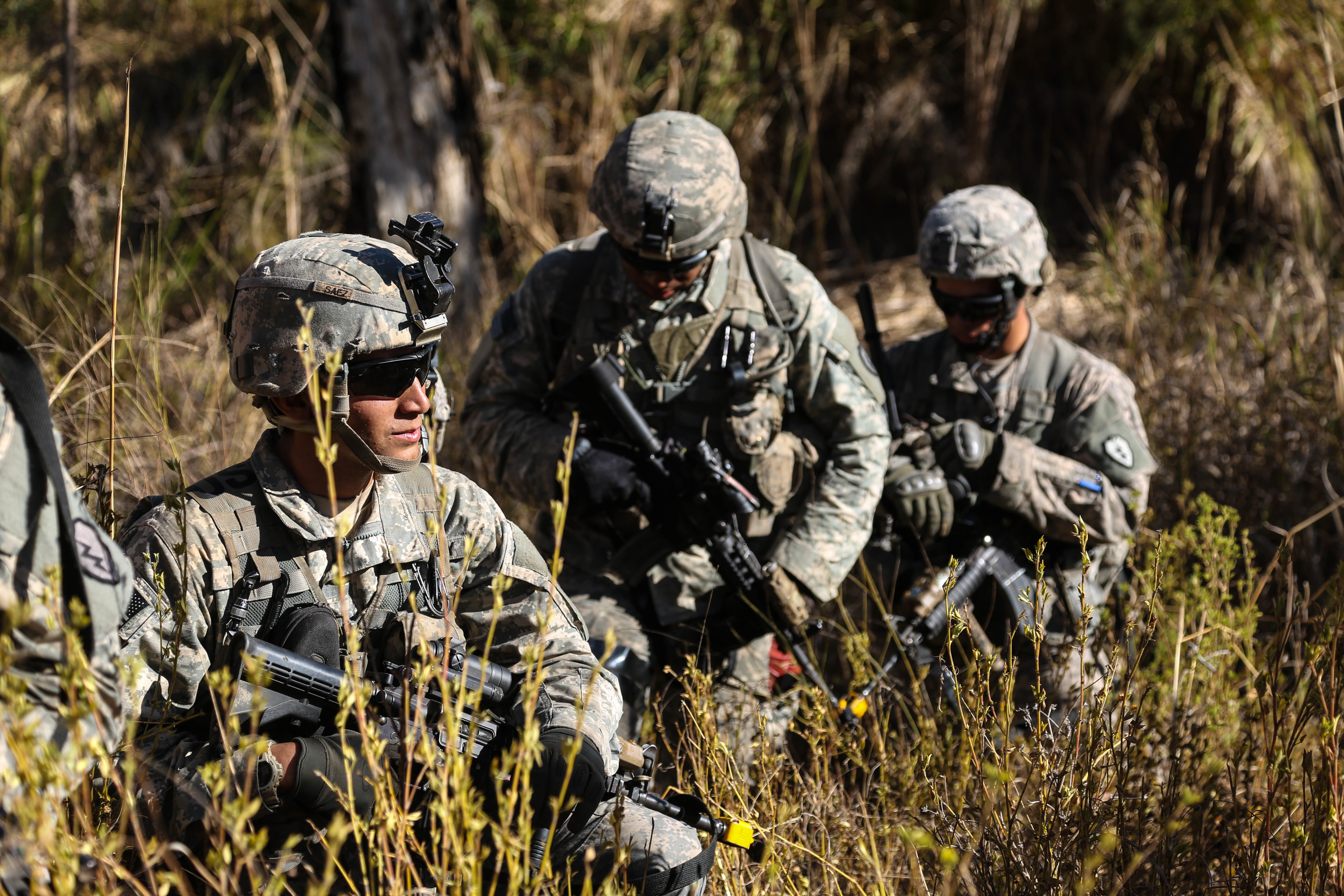 U.S. Soldiers from Bravo Company, 2-27th Battalion, 25th Infantry Division, patrol the woods during exercise Pacific Pathways in Townsville, Queensland, Australia, Aug. 7, 2015. Pacific Pathways gives Soldiers the opportunity to train and build relationships with foreign nations. (U.S. Army photo by Spc. Jordan Talbot/Released) Unit: 55th Combat Camera